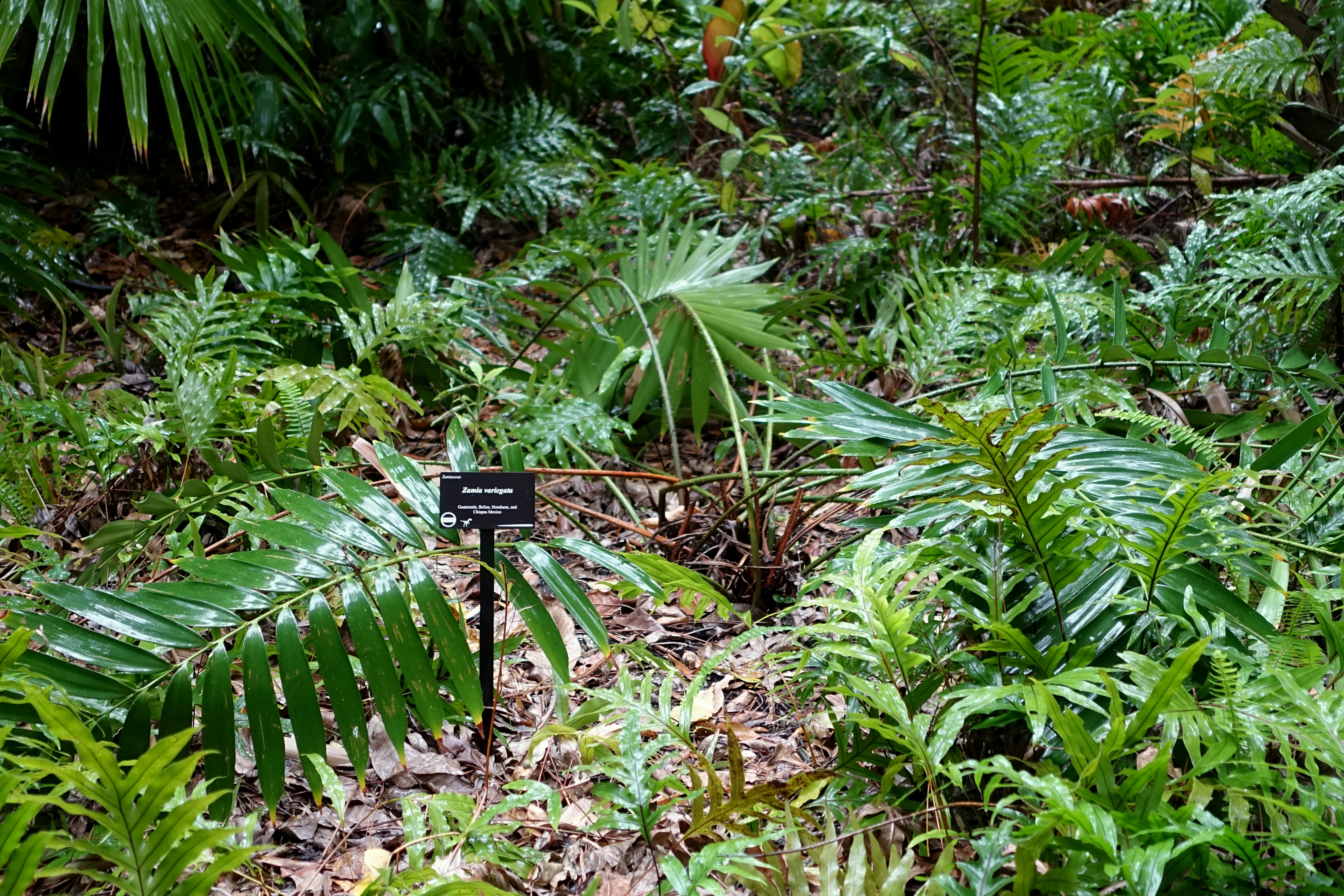 Botanical specimen in McKee Botanical Garden - Vero Beach, Florida, USA.